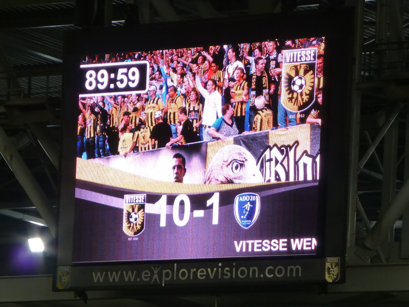 Gelredome video screen over the North Stand, a few seconds before the final whistle at the match Vitesse vs ADO '20 in the eighth final of the Dutch KNVB Cup; finale score 10-1